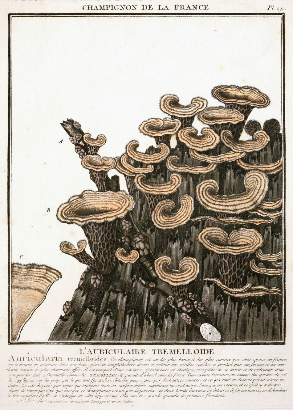 Tripe Fungus (Auricularia mesenterica)